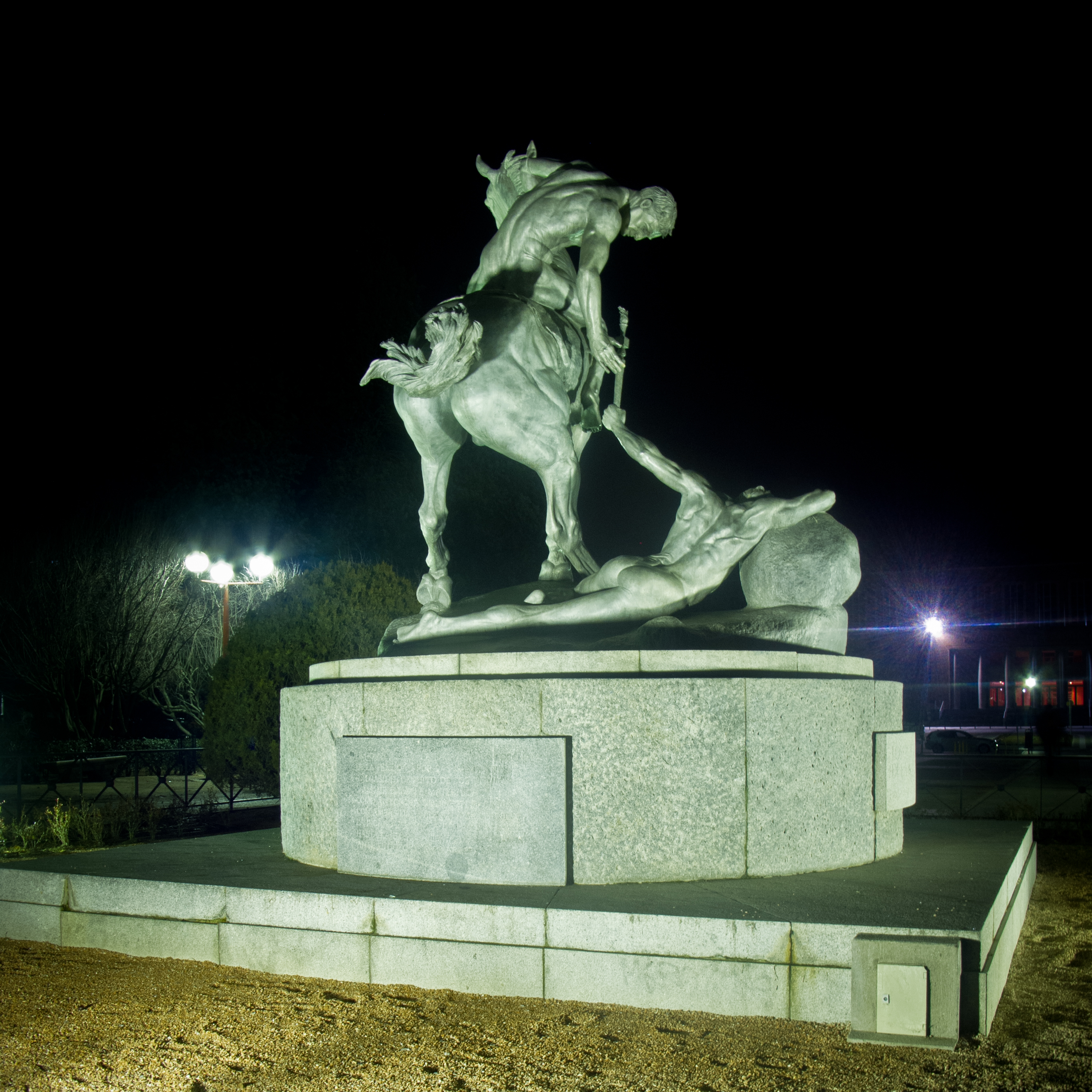 The Torch Bearers, sculpture by Anna Hyatt Huntington located in Ciudad Universitaria, Madrid, Spain.